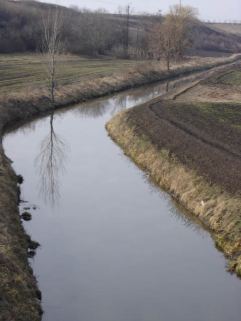 River Krivaja near Mali Iđoš/Kishegyes, Serbia